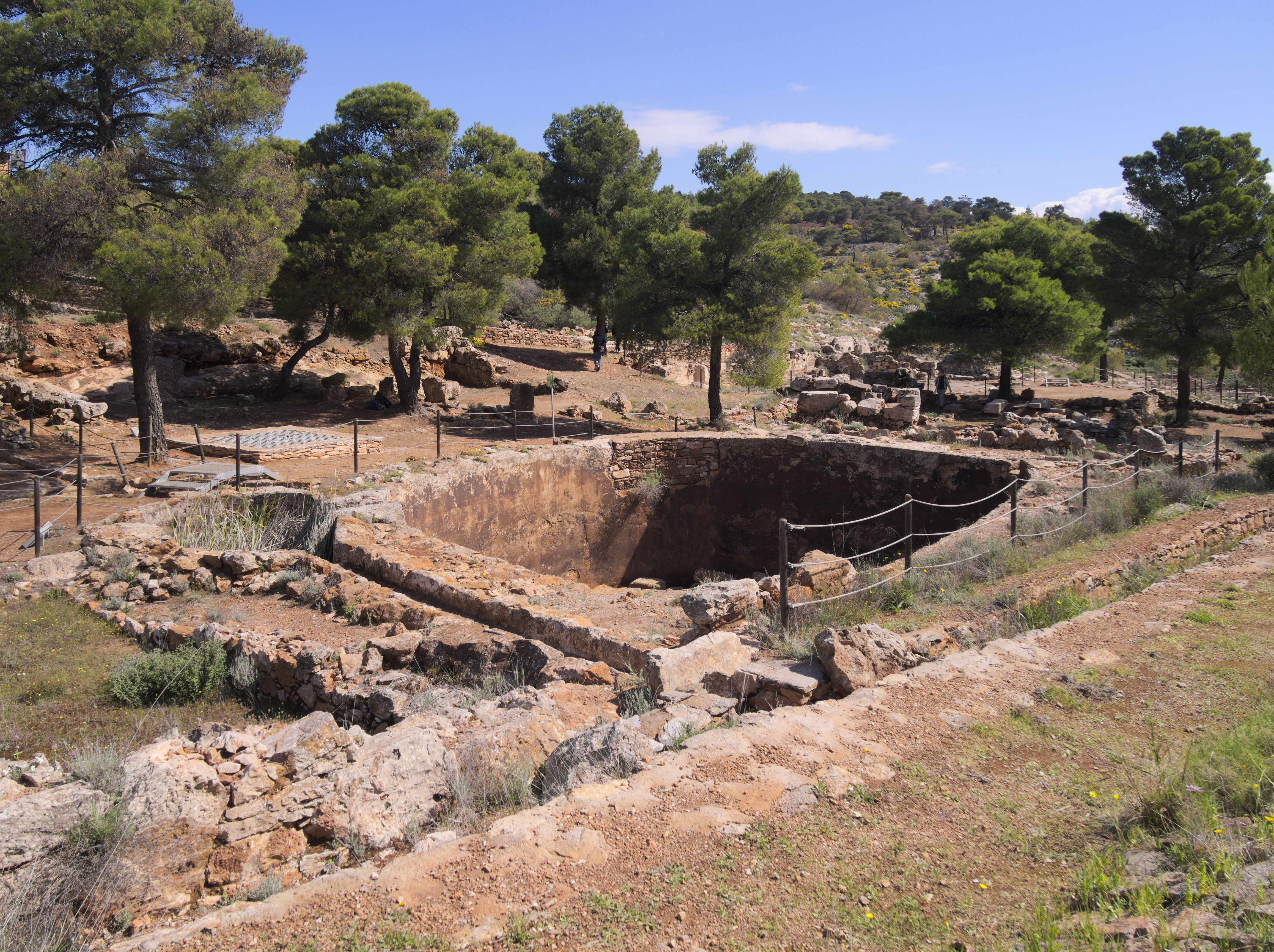 A large cistern at Souriza, Lavrio, who's water was used for the ore washing was performed at the Antiquity. Water was transported though a ditch and then into a small cistern and susquently in to a larger one.